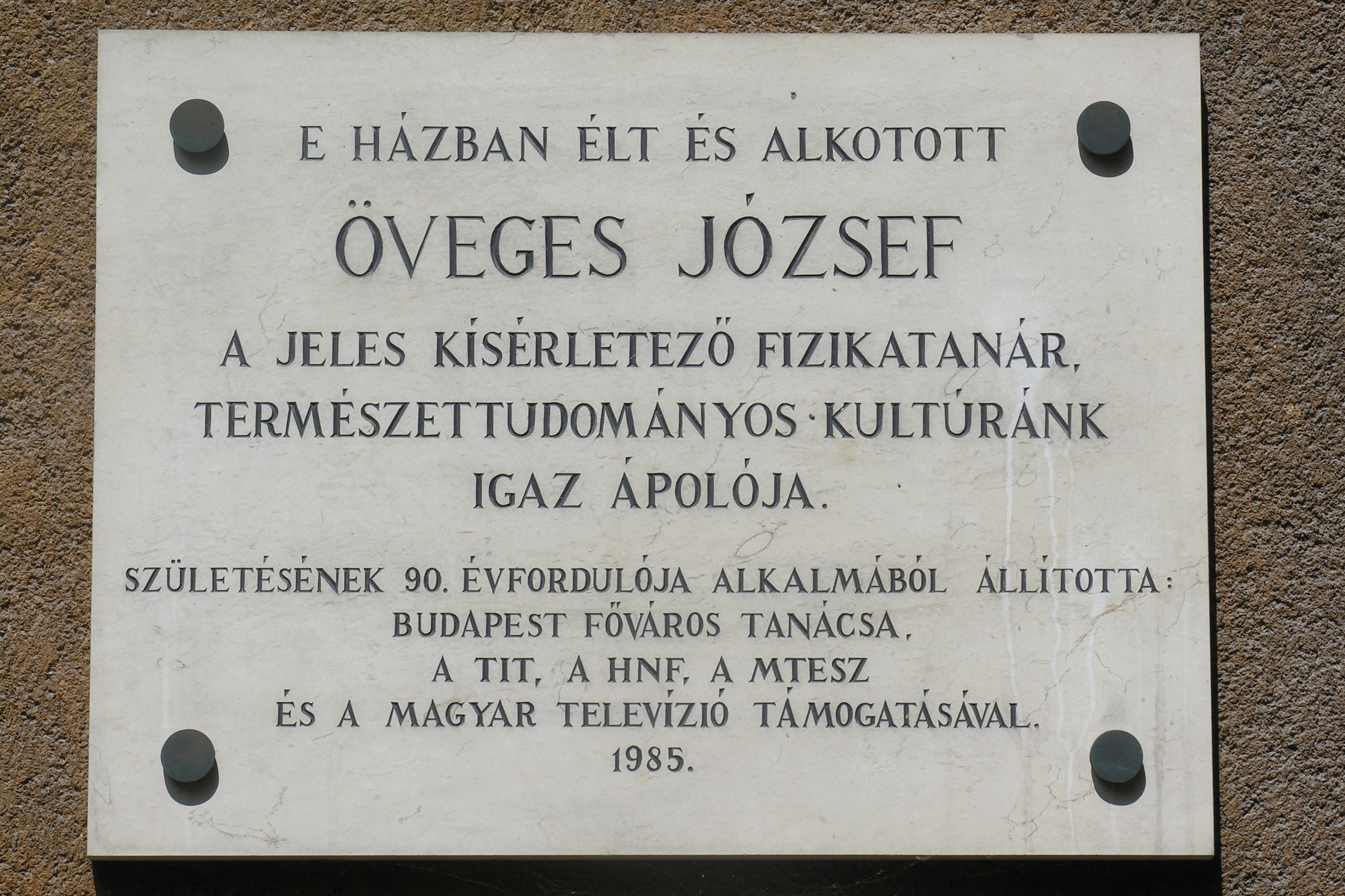 Commemorative plaque of József Öveges in Budapest District II, Varsányi Court No 2